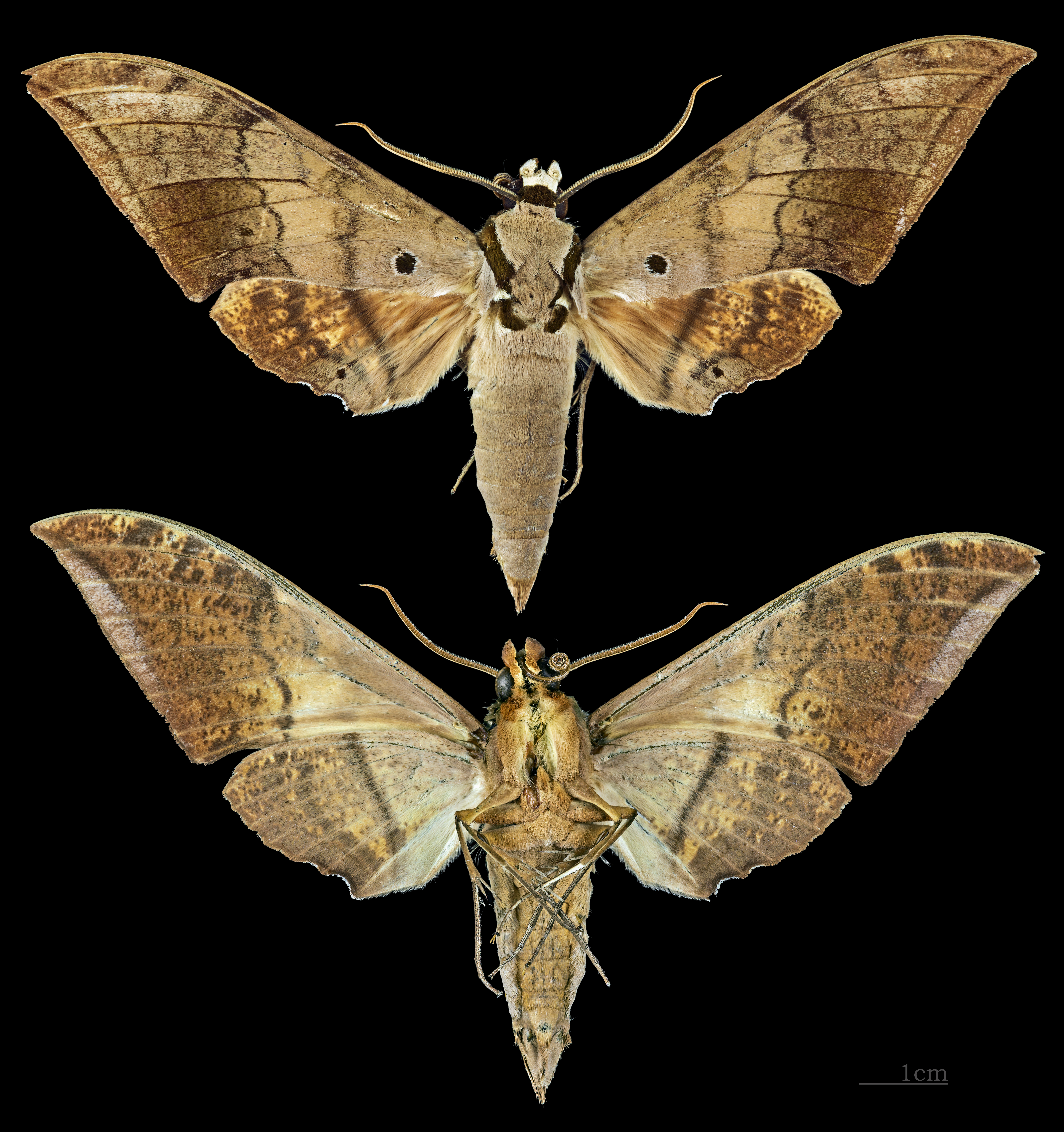 Ambulyx tenimberi - Two views of same specimen Collection of the Mathematician Laurent Schwartz